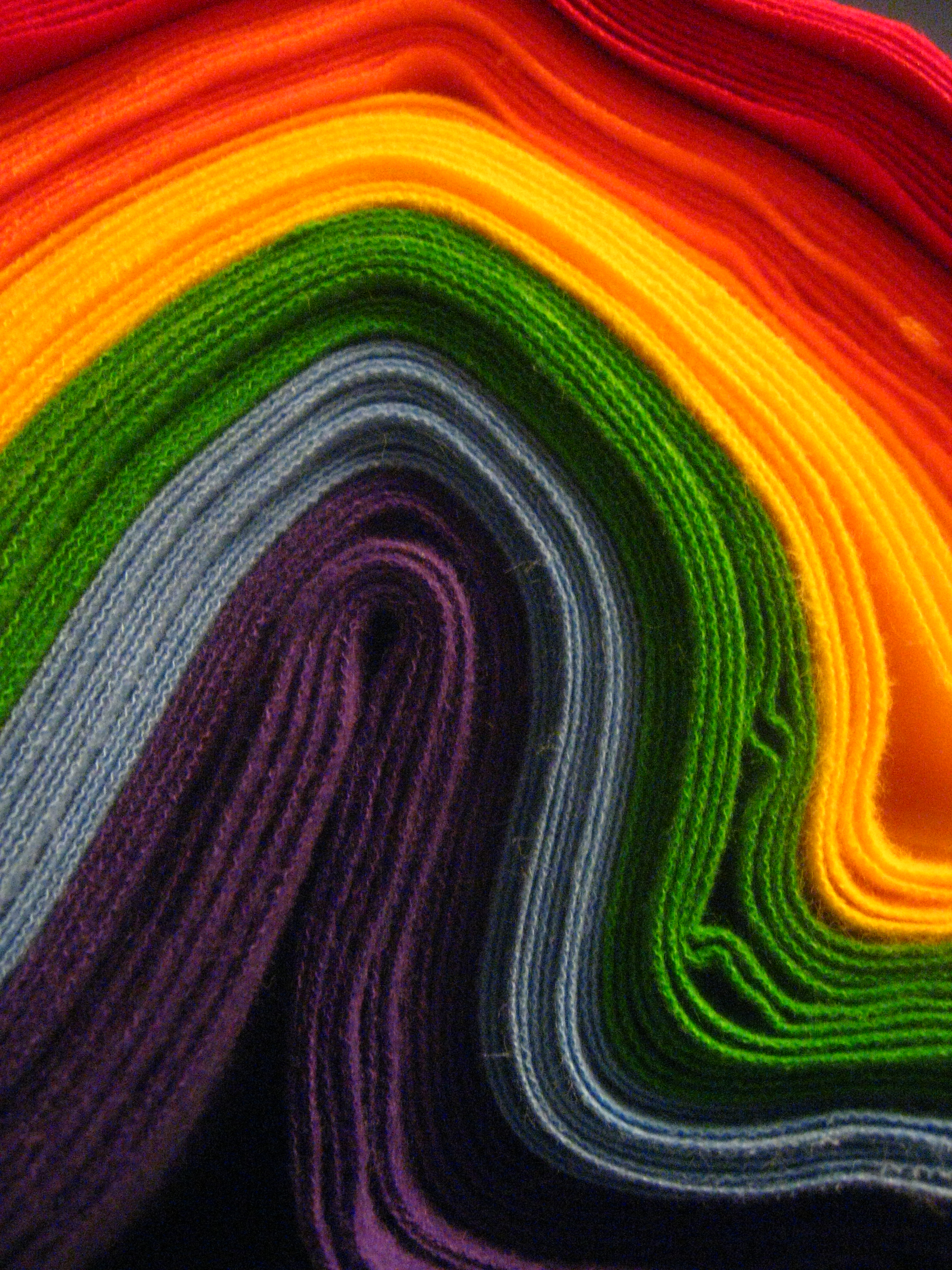 A folded pile of flannel cloths in rainbow colours.